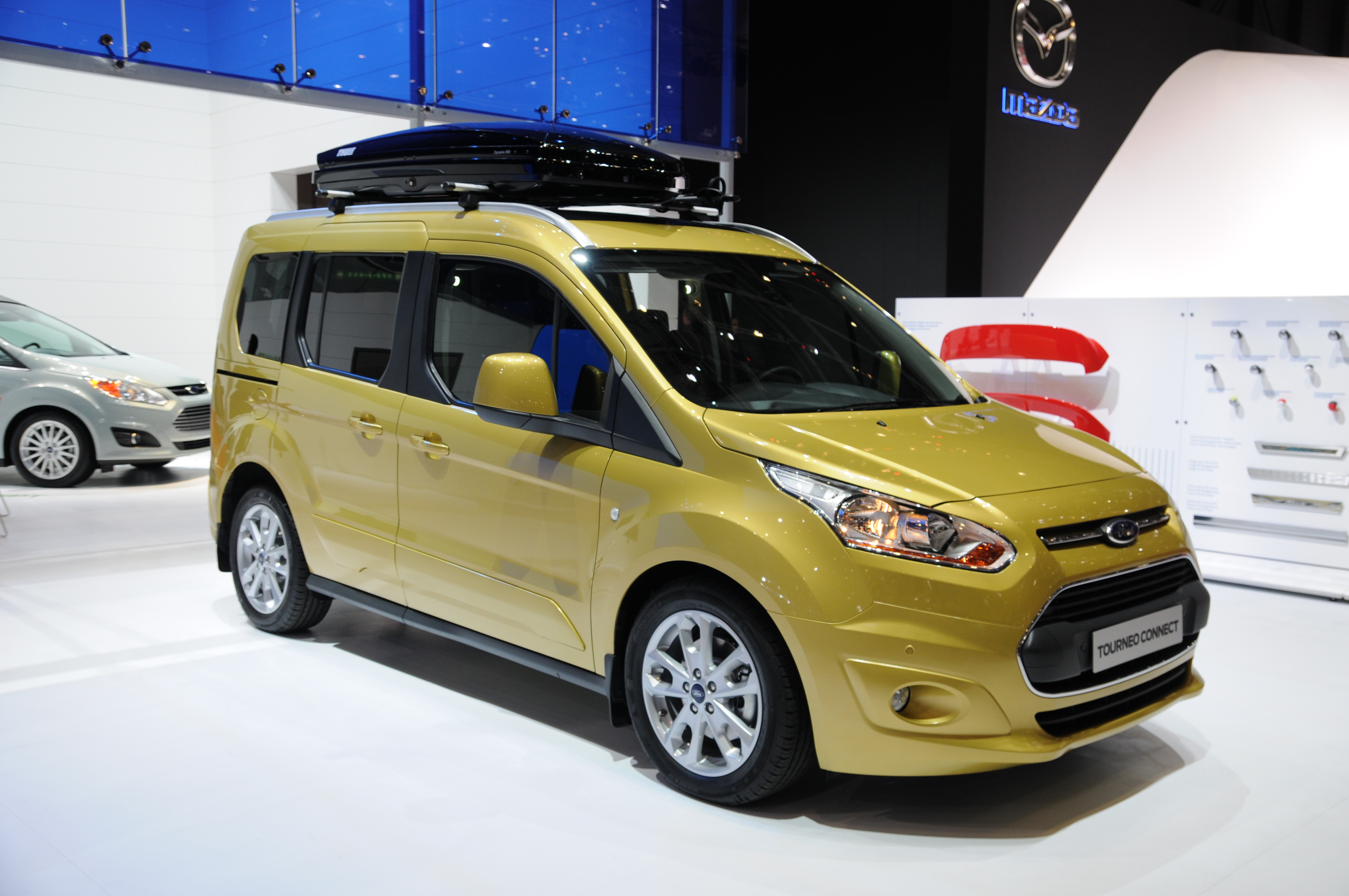 Geneva Motor Show 2014 (photo taken on the first press day)